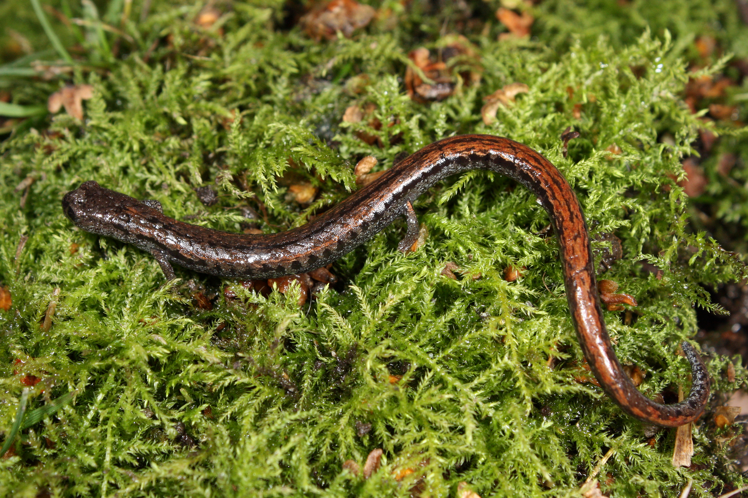 Batrachoseps attenuatus (California Slender Salamander) in Berkeley, California